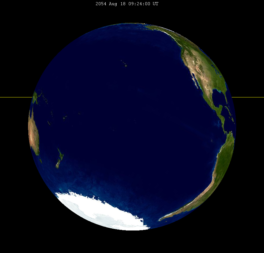 August 2054_lunar_eclipse view of earth The orientation of the earth as viewed from the center of the moon during greatest eclipse. thumb